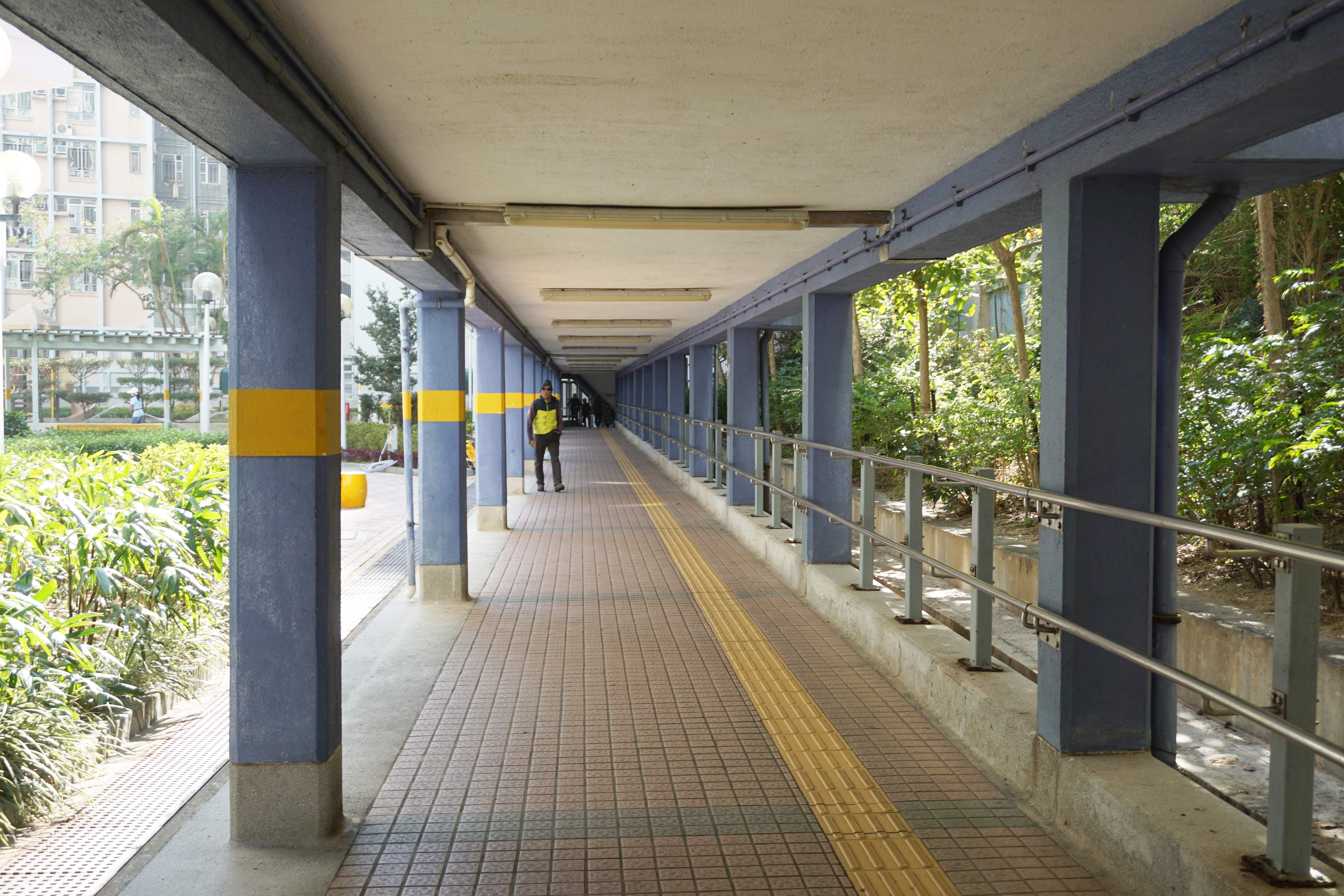 Ko Yee Estate in Yau Tong, Hong Kong.